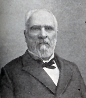 John Avery, US Representative from Michigan